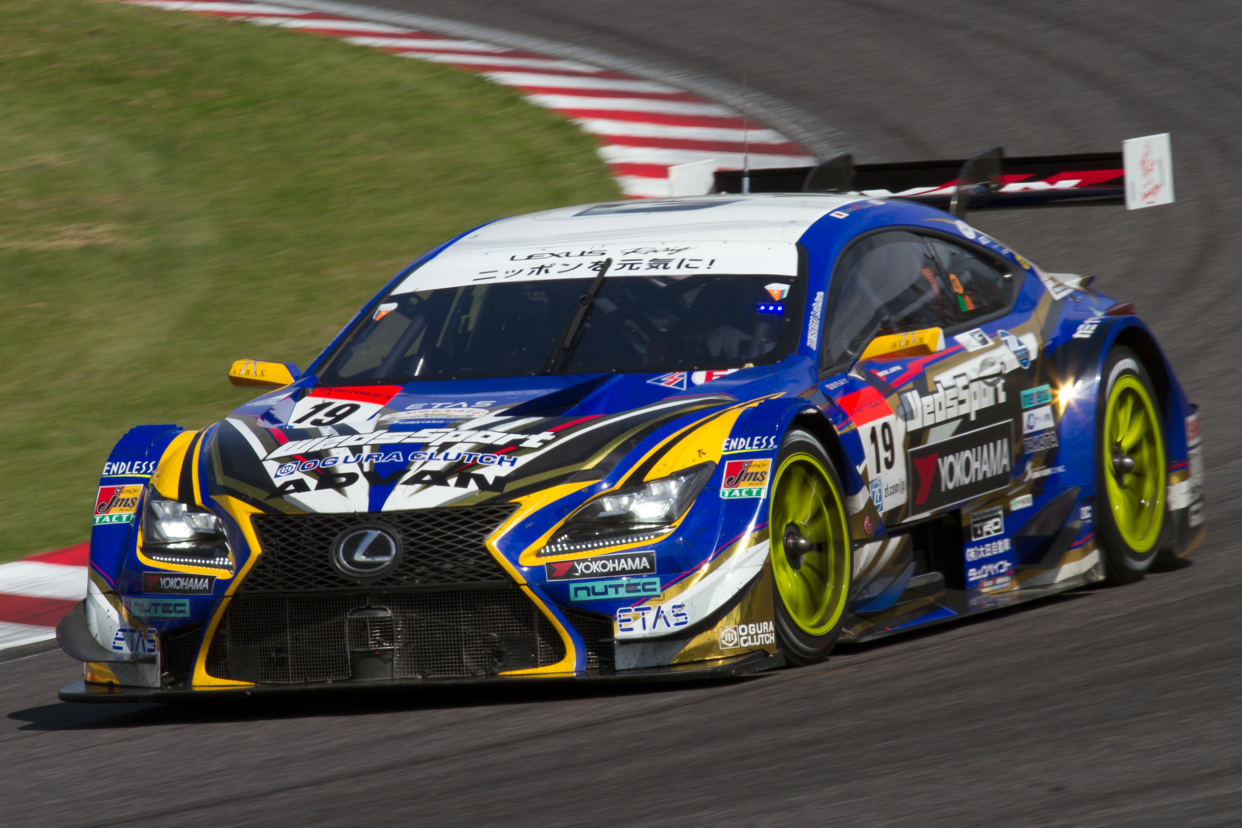 Super GT 2014 Rd.6 Suzuka 1000km: Yuhi Sekiguchi (Bandoh)